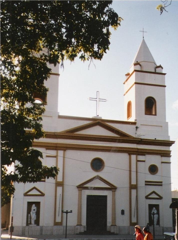 A picture of the front of Resistencia's Cathedral.